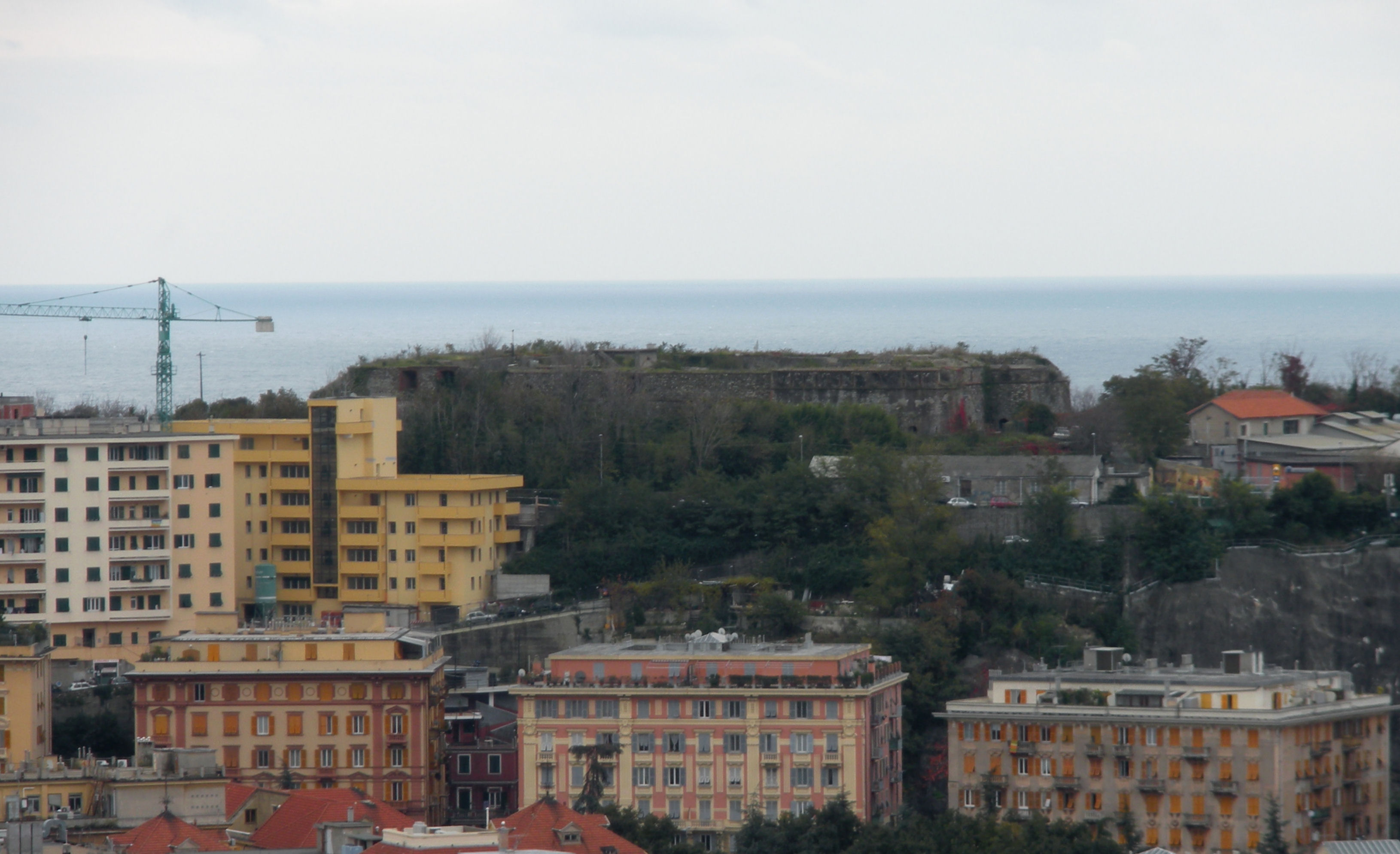 Genoa, Italy, view of fort San Martino